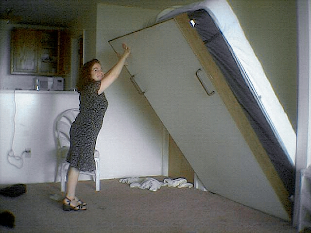 Woman folding a murphy bed